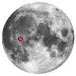 Description: Location of the Copernicus crater on the Moon. Source: This is a modified version of the photo obtained from the NASA Planetary Photojournal. It was modified by RJHall. Width: 150 pixels Height: 150 pixels